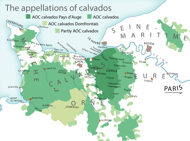 The three appelations of calvados (Illustration by Henrik Mattsson, ).